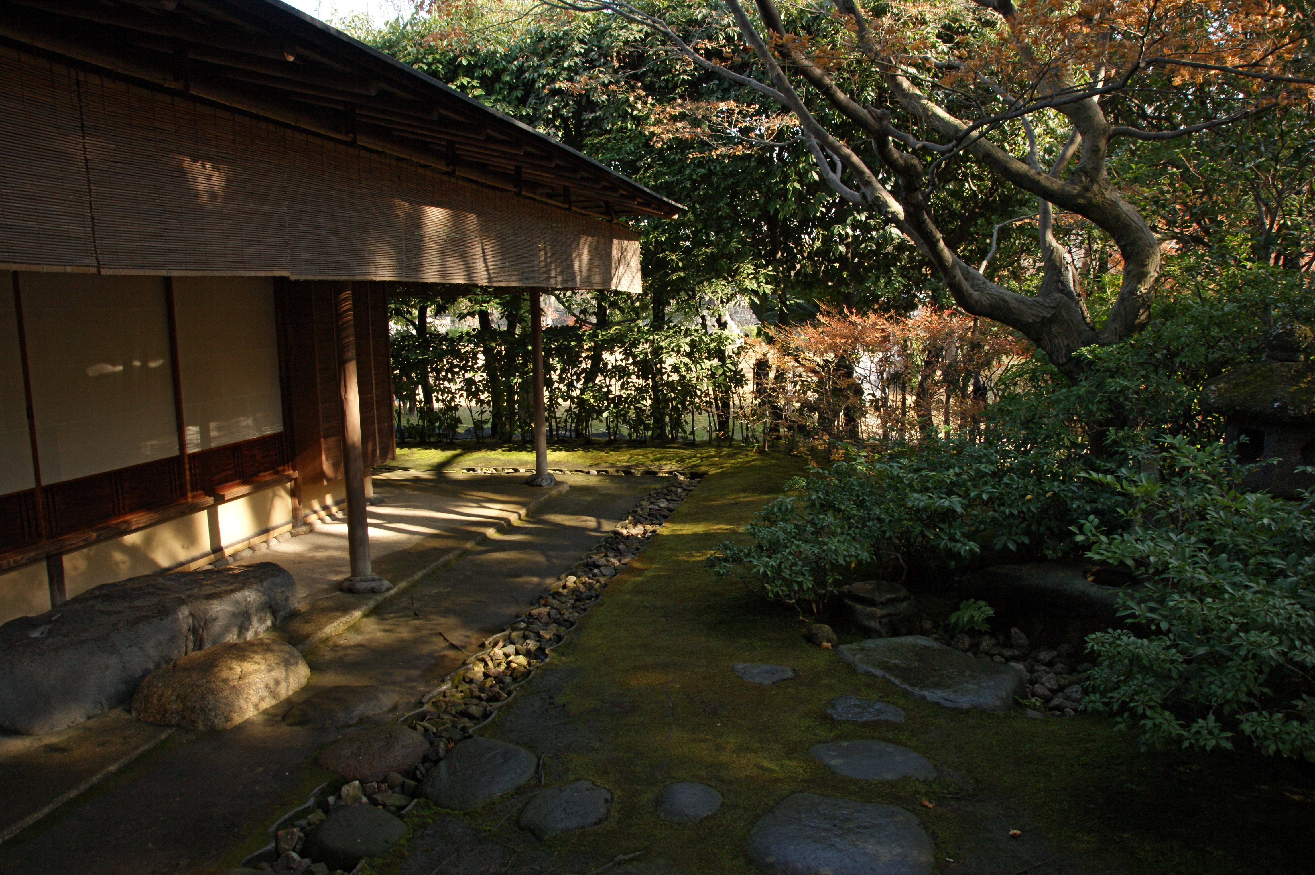 Wakayama Castle Nishinomaru Garden, Wakayama, Wakayama prefecture, Japan